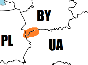 Extension of West Polesian.